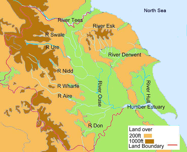 map of Yorkshire